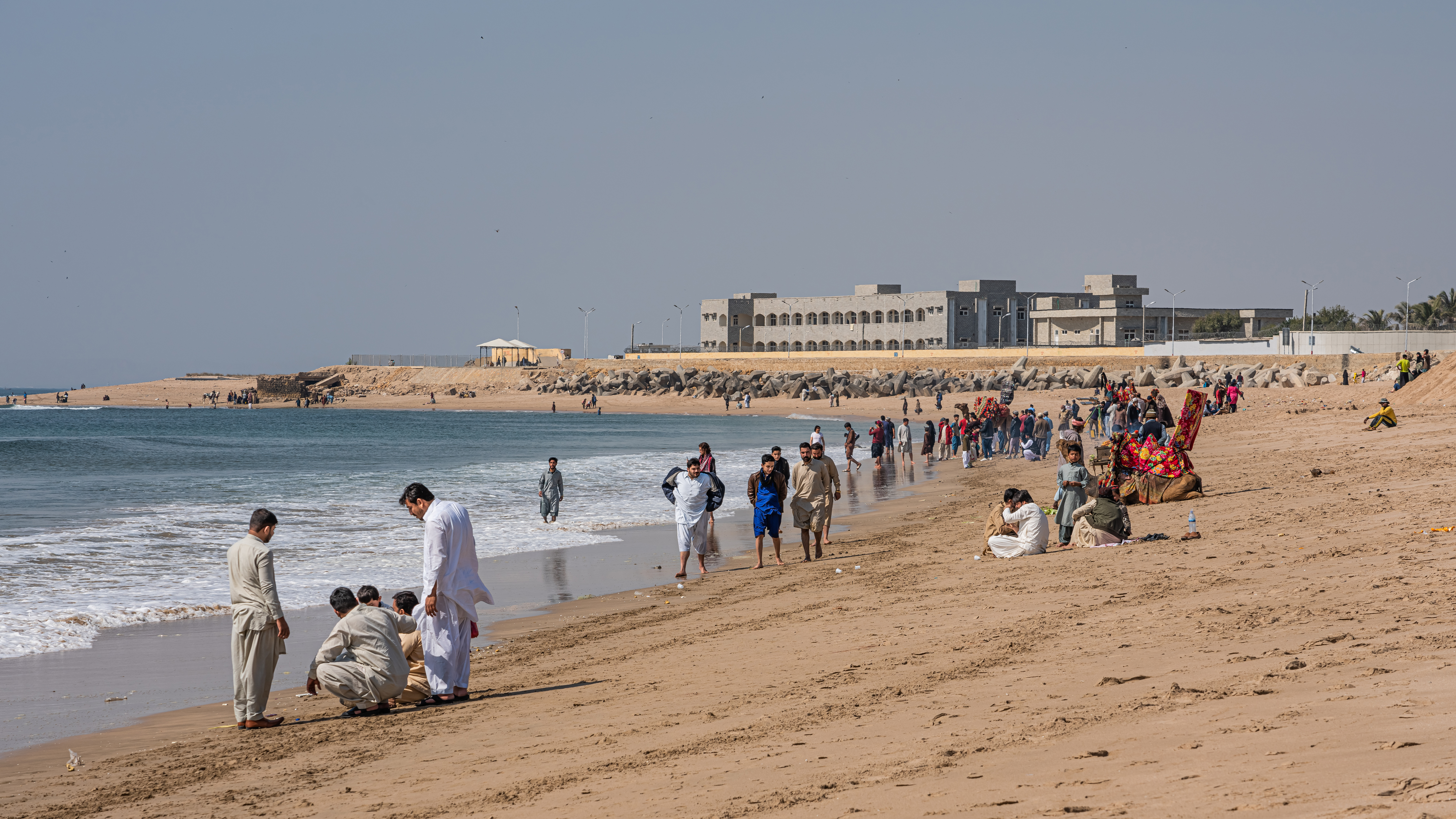 Beach on Manora peninsula near Karachi, Pakistan